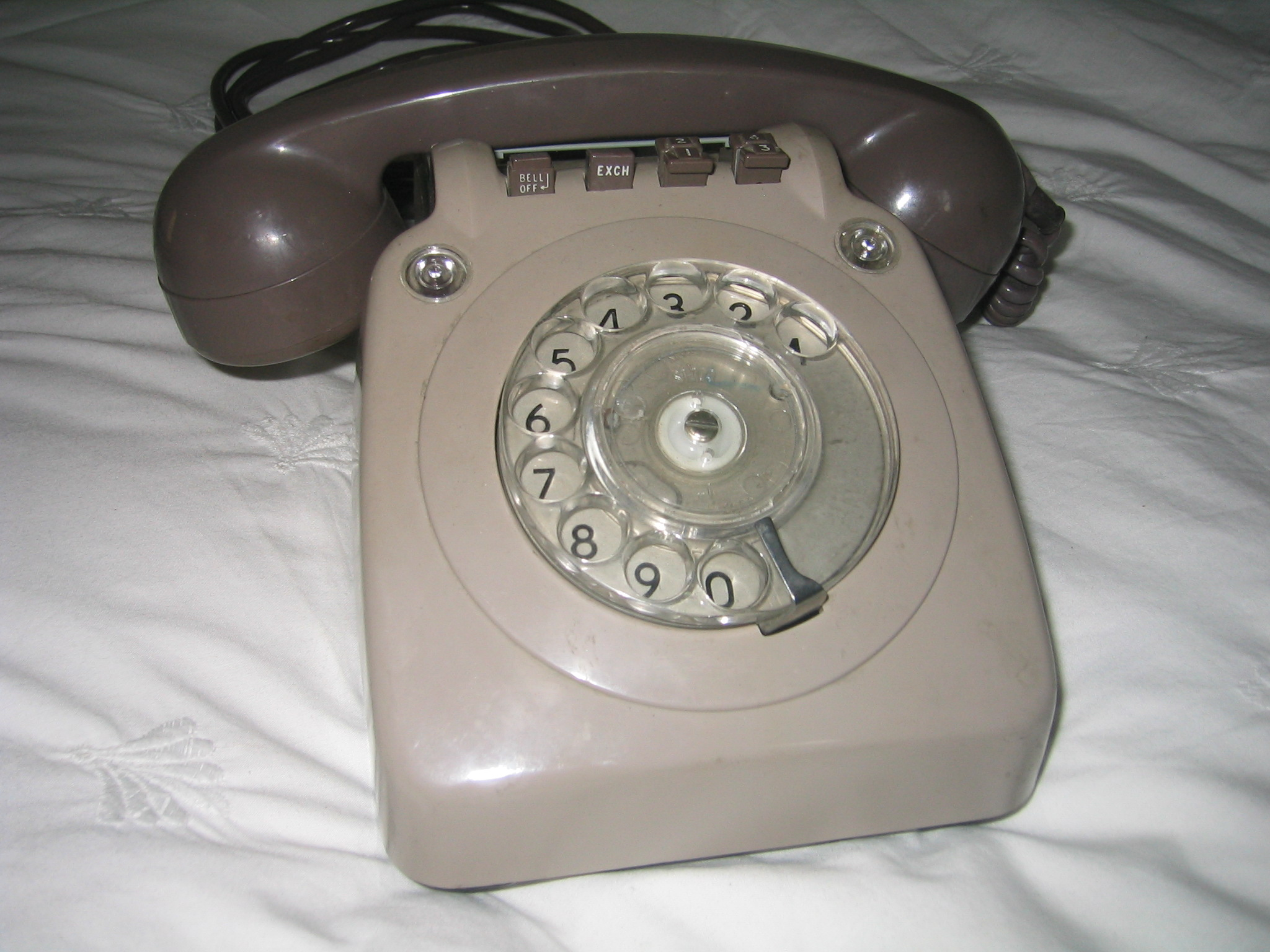 GPO 706 HES